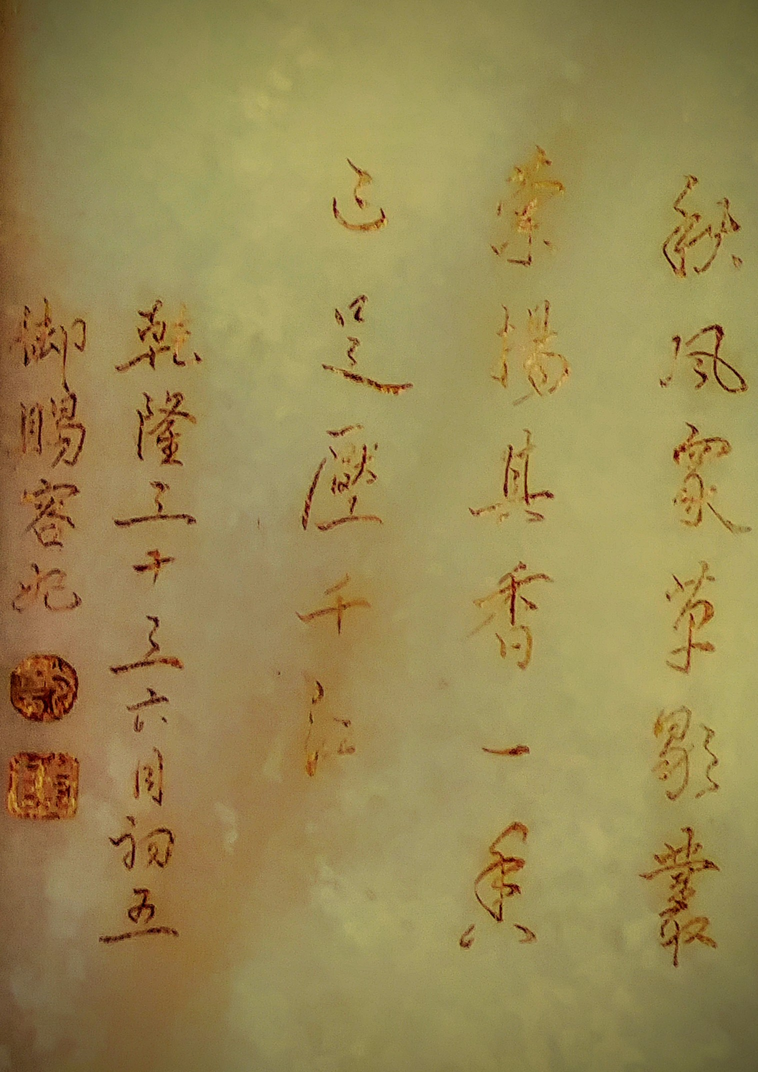 Qianlong imperial gift to consort Rong Fei 容妃, a jade plaque inscribed with his verse.